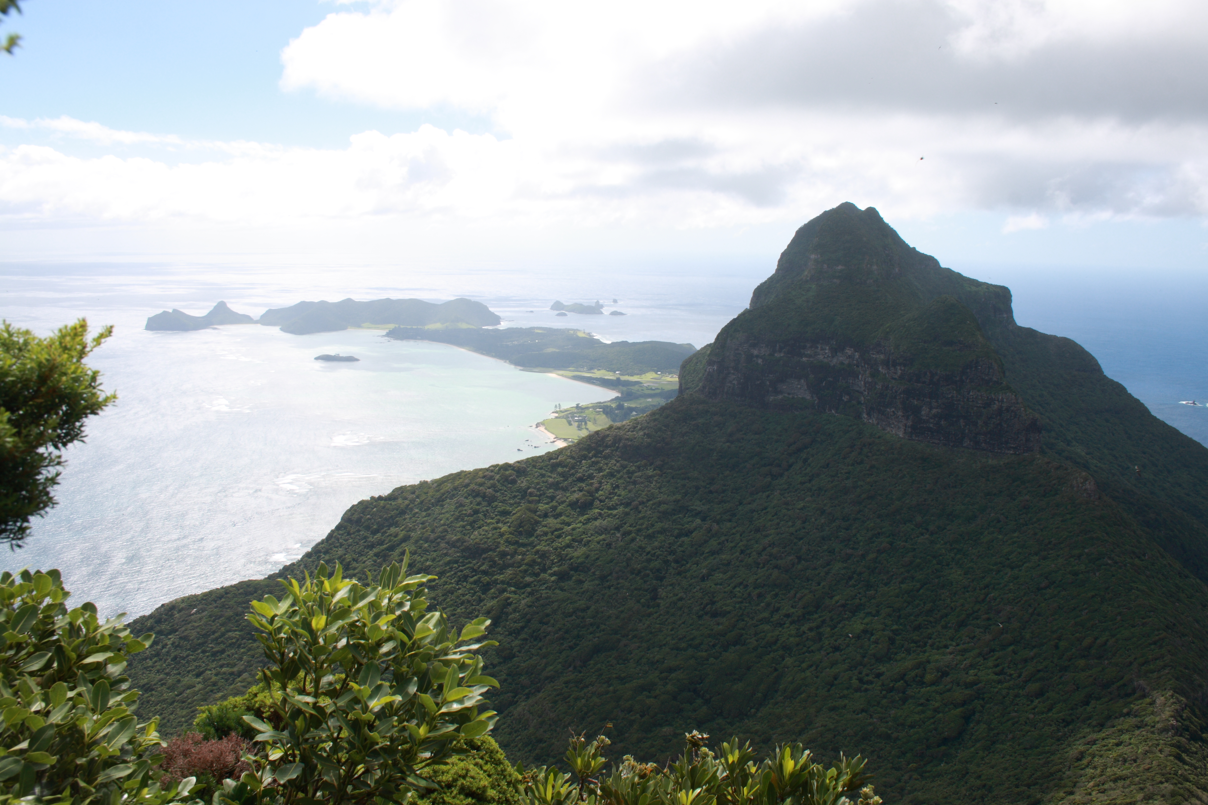 On the walk up Mount Gower on Lord Howe Island.